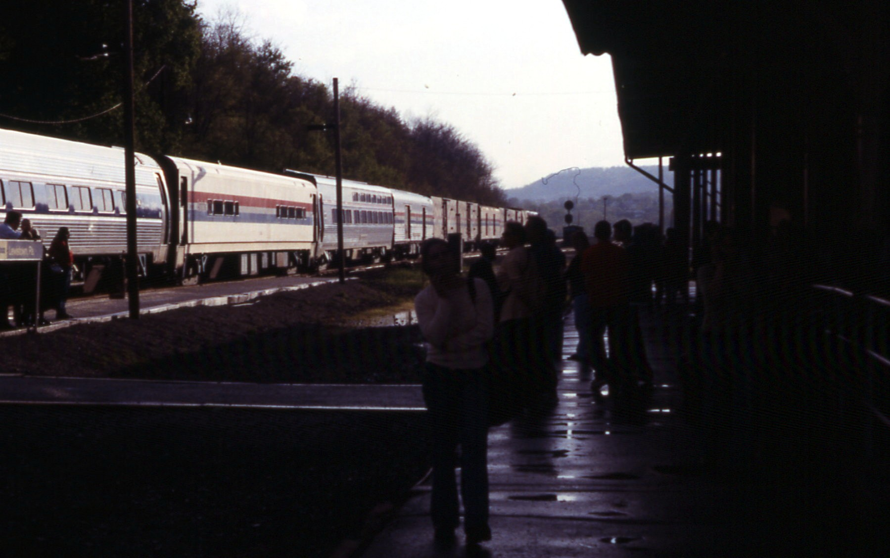 Amtrak's Three Rivers at Lewistown, Pennsylvania, in 2002. From left to right: an Amfleet coach, a Horizon Fleet dinette, a Viewliner sleeping car, a Heritage Fleet baggage car, and multiple material handling cars from Amtrak's short-lived freight service.